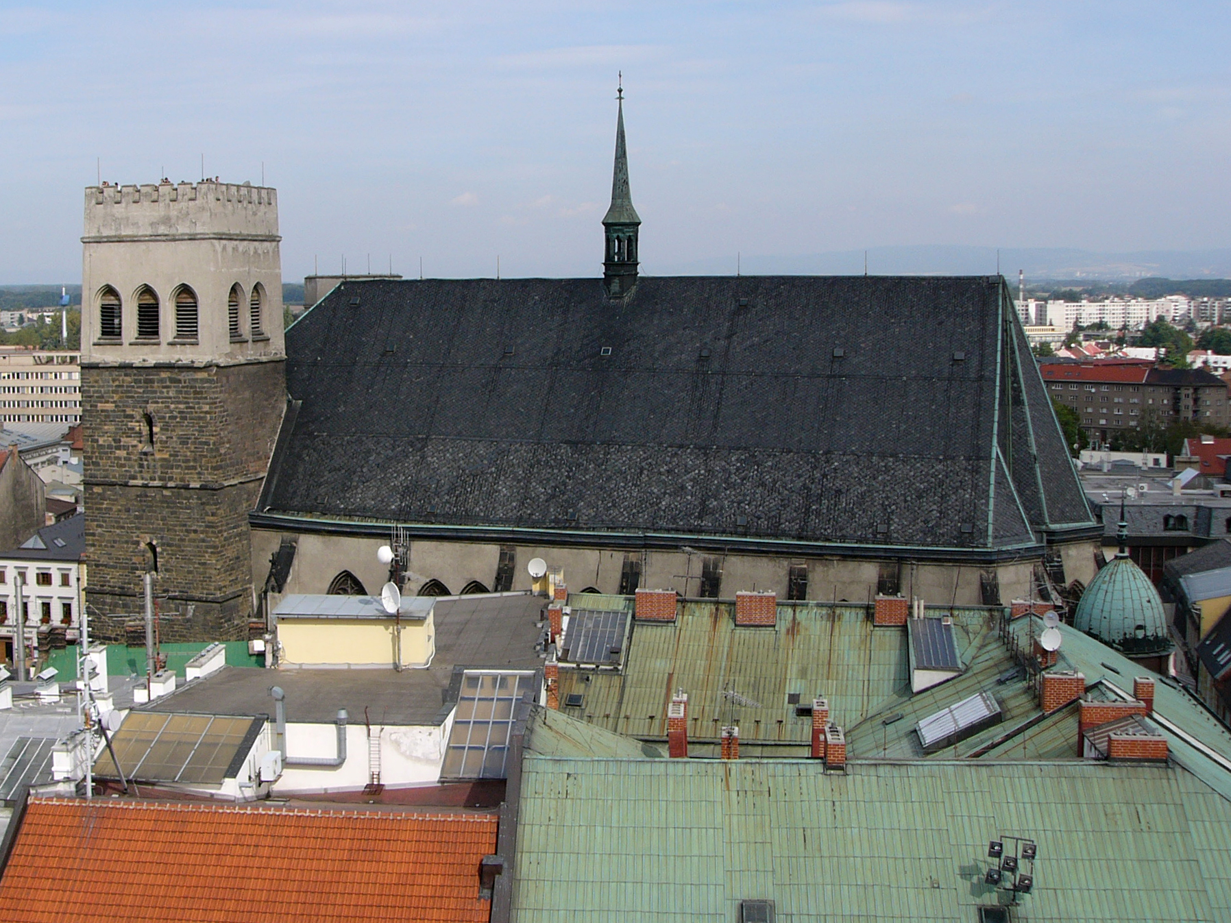 Churches in Olomouc (Czech Republic).